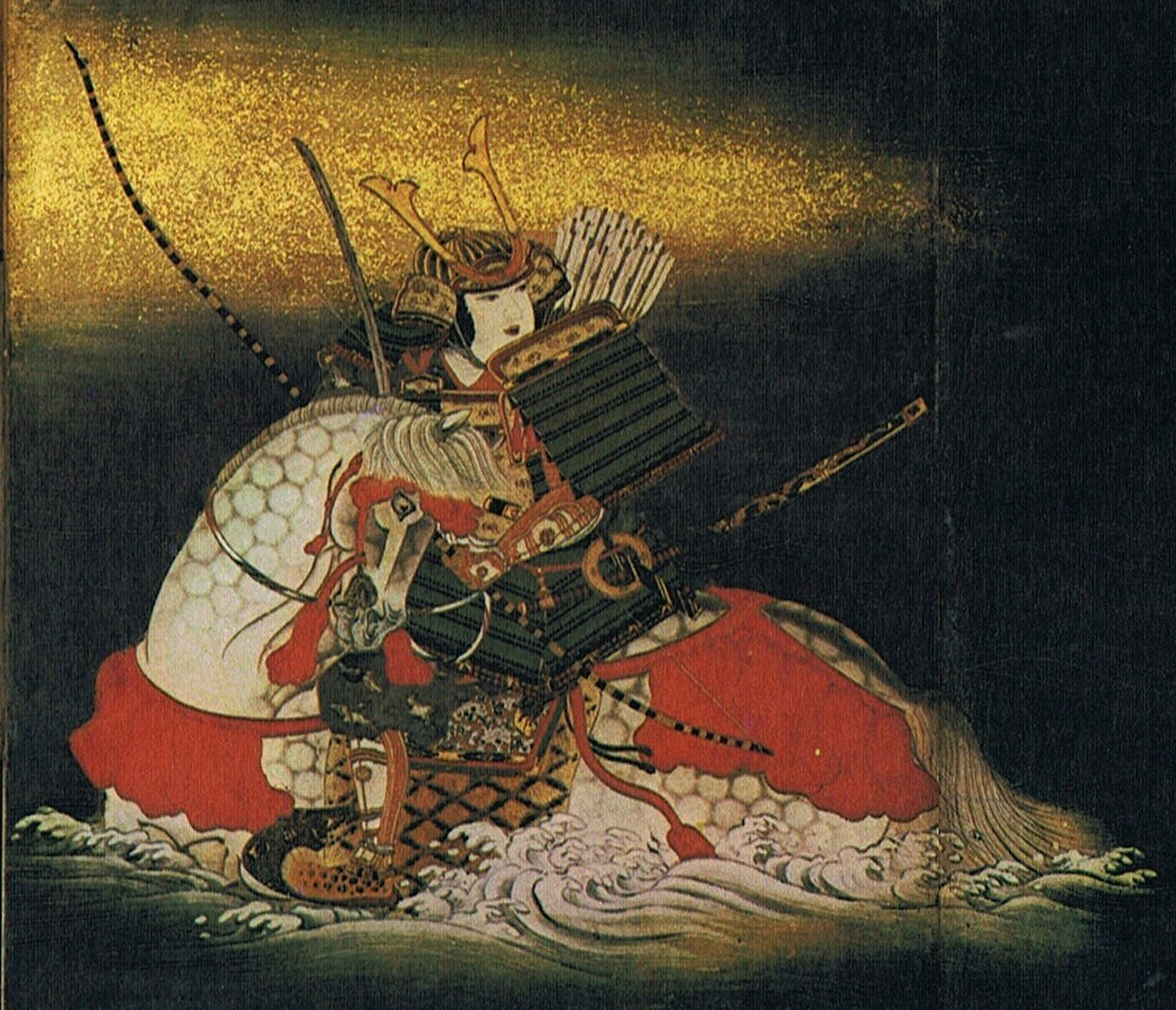 Taira no Atsumori is stopped by Kumagai Naozane in the Battle of Ichi-no-Tani.